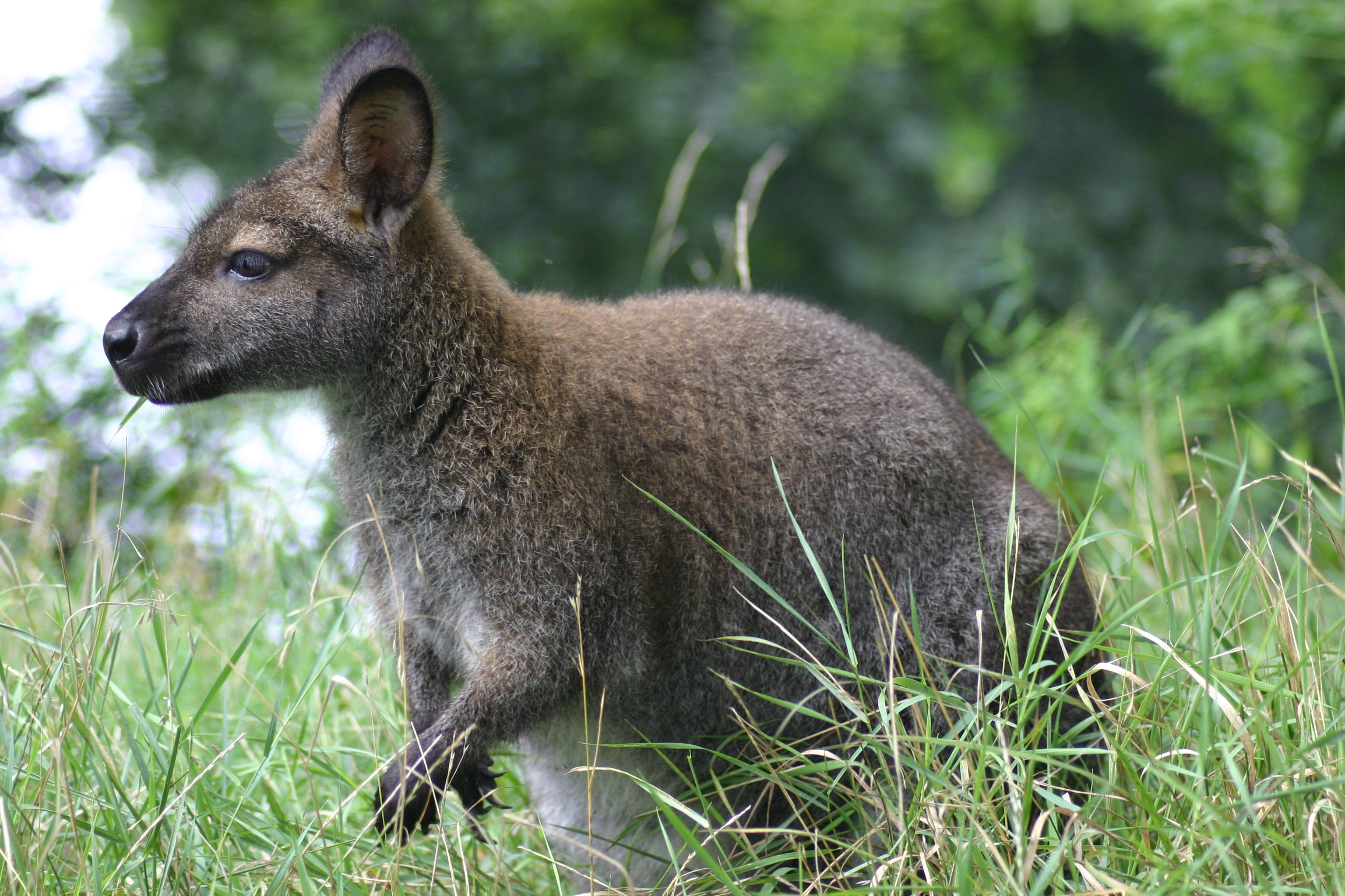 Red-necked wallaby, Macropus rufogriseus, at the Blank Park Zoo in Des Moines. Taken with a Canon Digital Rebel and a Tamron 75-300/4-5.6. ISO 400, 1/125s.